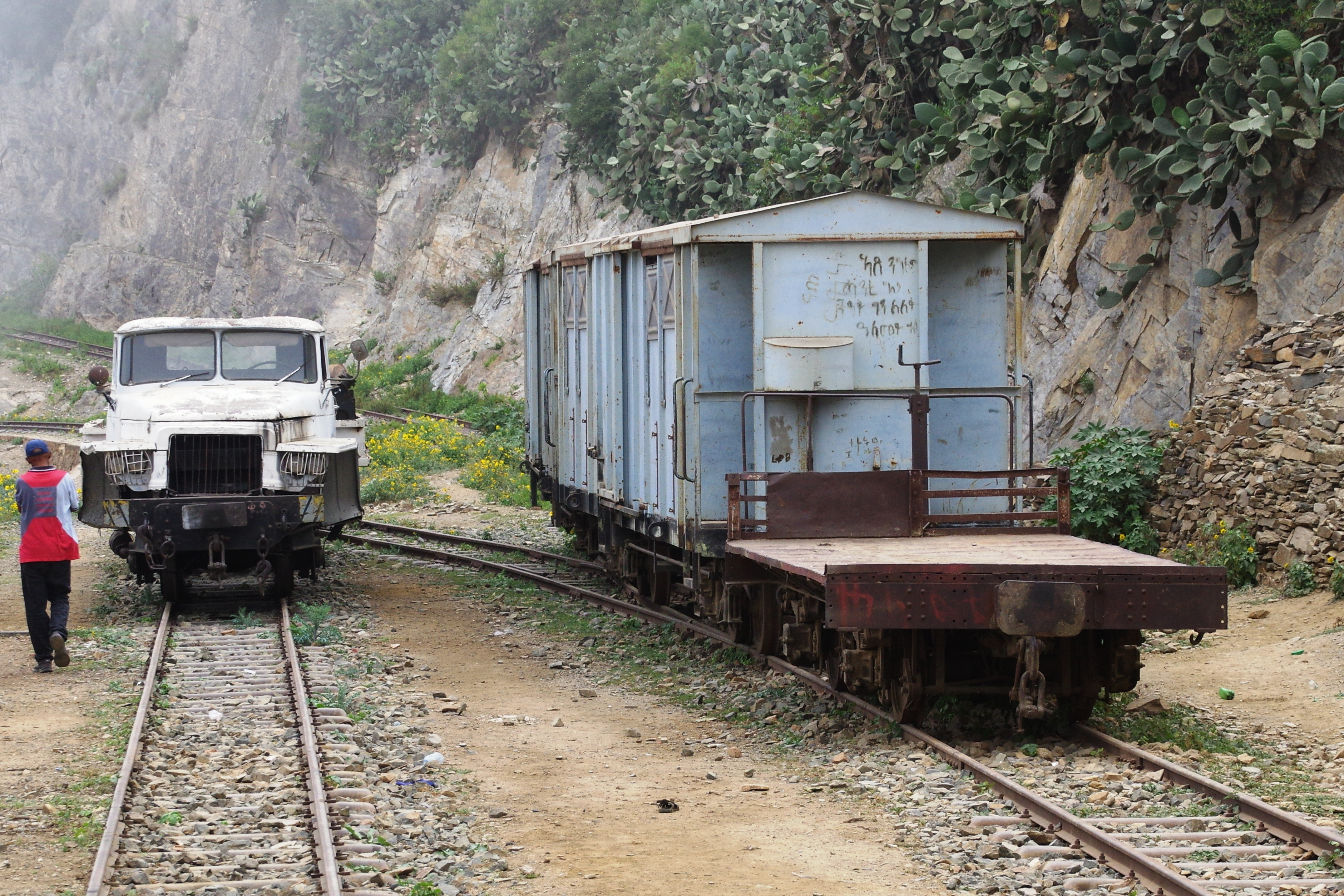 Renovated railcars and a maitenance truck on the Eritrean Railway